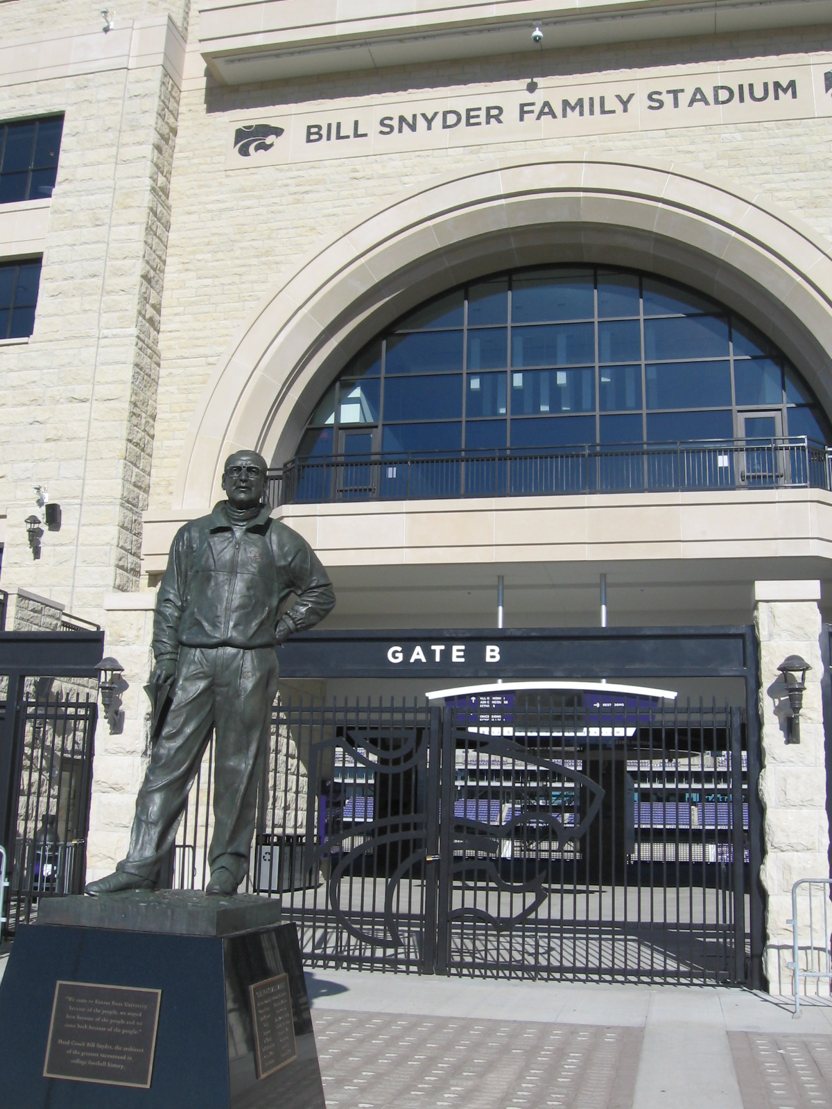 Snyder Stadium on the KSU campus in Manhattan, Kansas, with statue of Bill Snyder